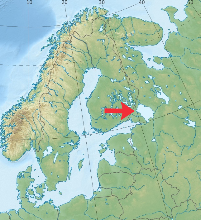 Derived from:File:Europe relief laea location map.jpg